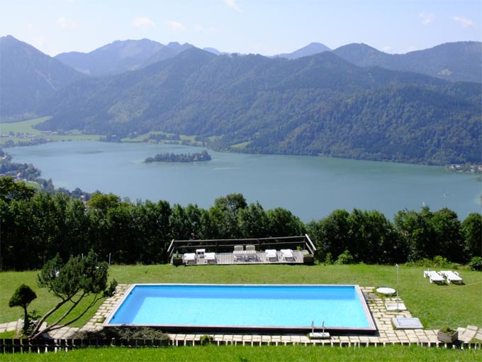 Lake Schliersee viewed from above over the open air swimming pool.